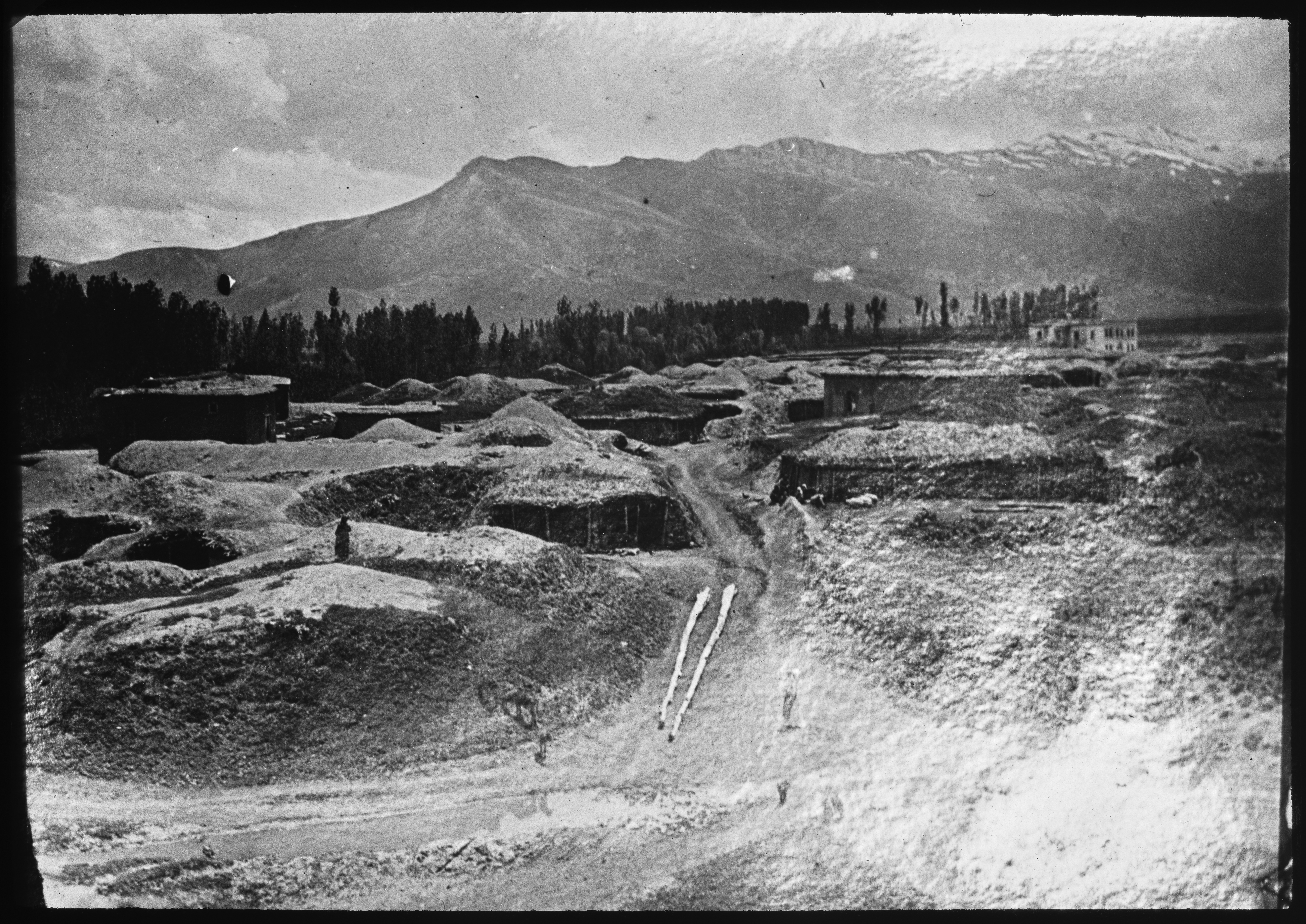 The photo has been retrieved from the National Archival Service of Norway. The photo is part of a series of reversal film photos from Bodil Biørn, a Norwegian missionary, humanitarian, nurse and midwife. She was engaged in humanitarian work in Armenia and Syria, amongst other places, through the association Kvinnelige Misjonsarbeidere. Original caption (translated): Arinjavank village, Mush